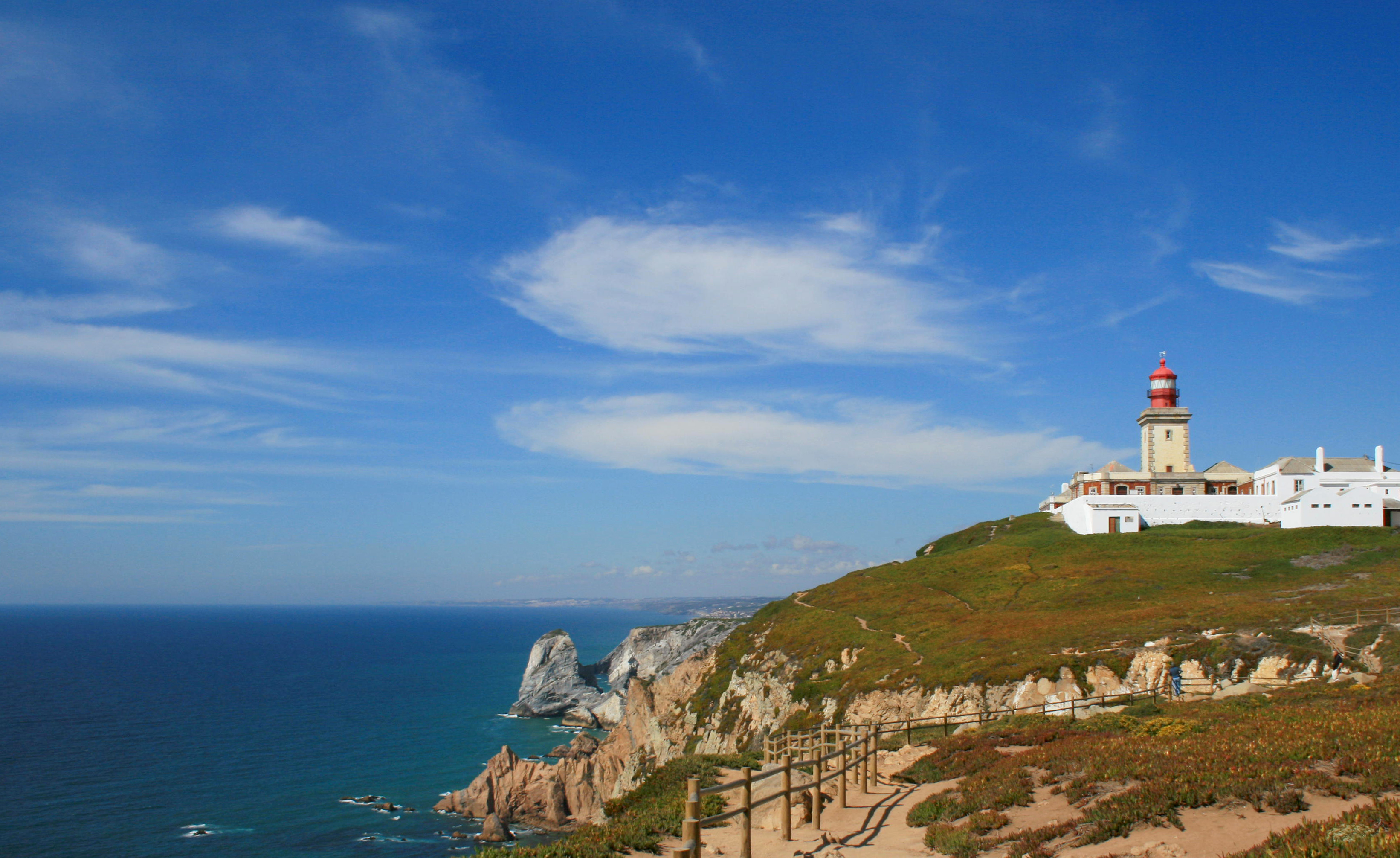 Cabo da Roca, the westernmost point of the European mainland